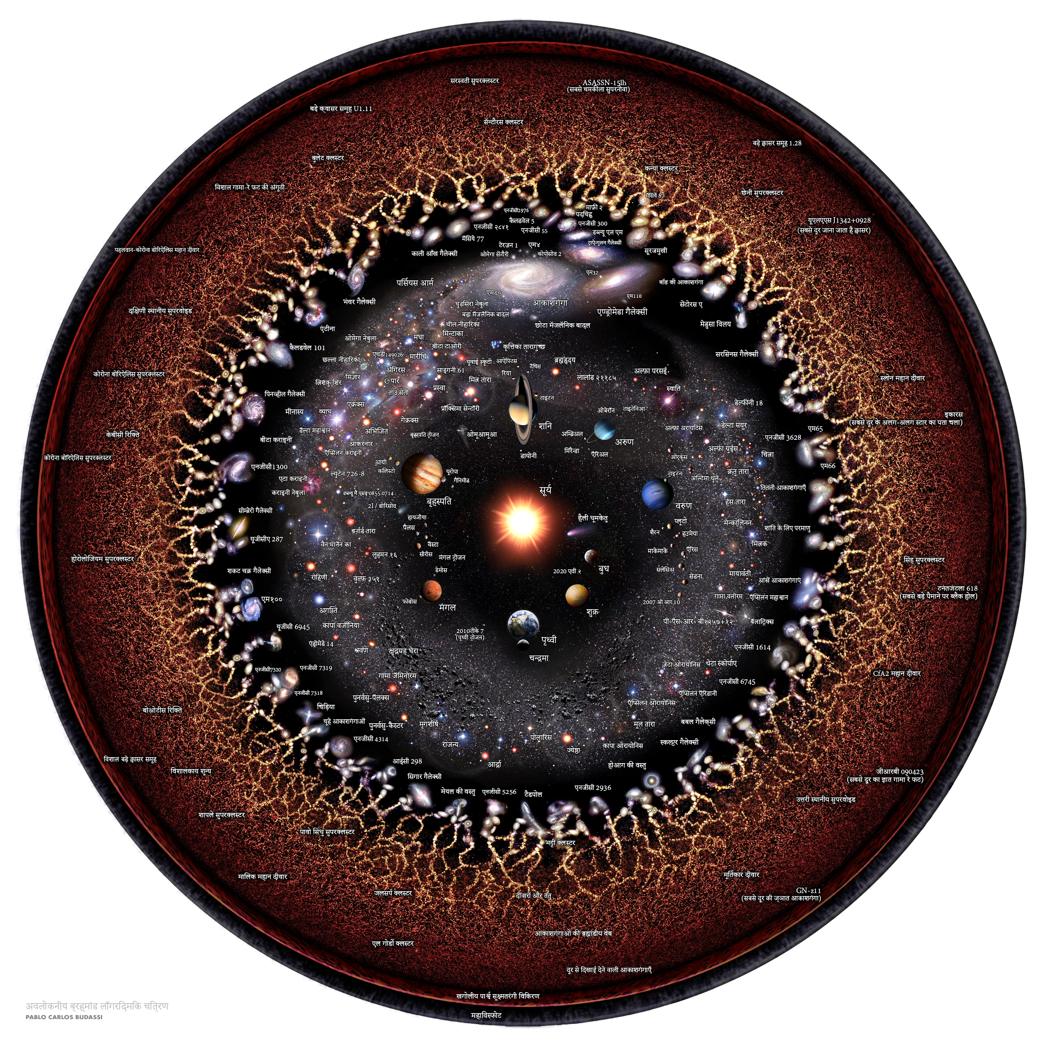 Logarithmic scale conception of the observable universe with the Solar System at the center, inner and outer planets, Kuiper belt objects, Alpha Centauri, Perseus Arm, Milky Way galaxy, Andromeda galaxy, nearby galaxies, Cosmic Web, Cosmic microwave radiation and Big Bang's invisible plasma on the edge. Distance from Earth increases exponentially from the center to the edge. Celestial bodies are shown enlarged to appreciate their shapes.